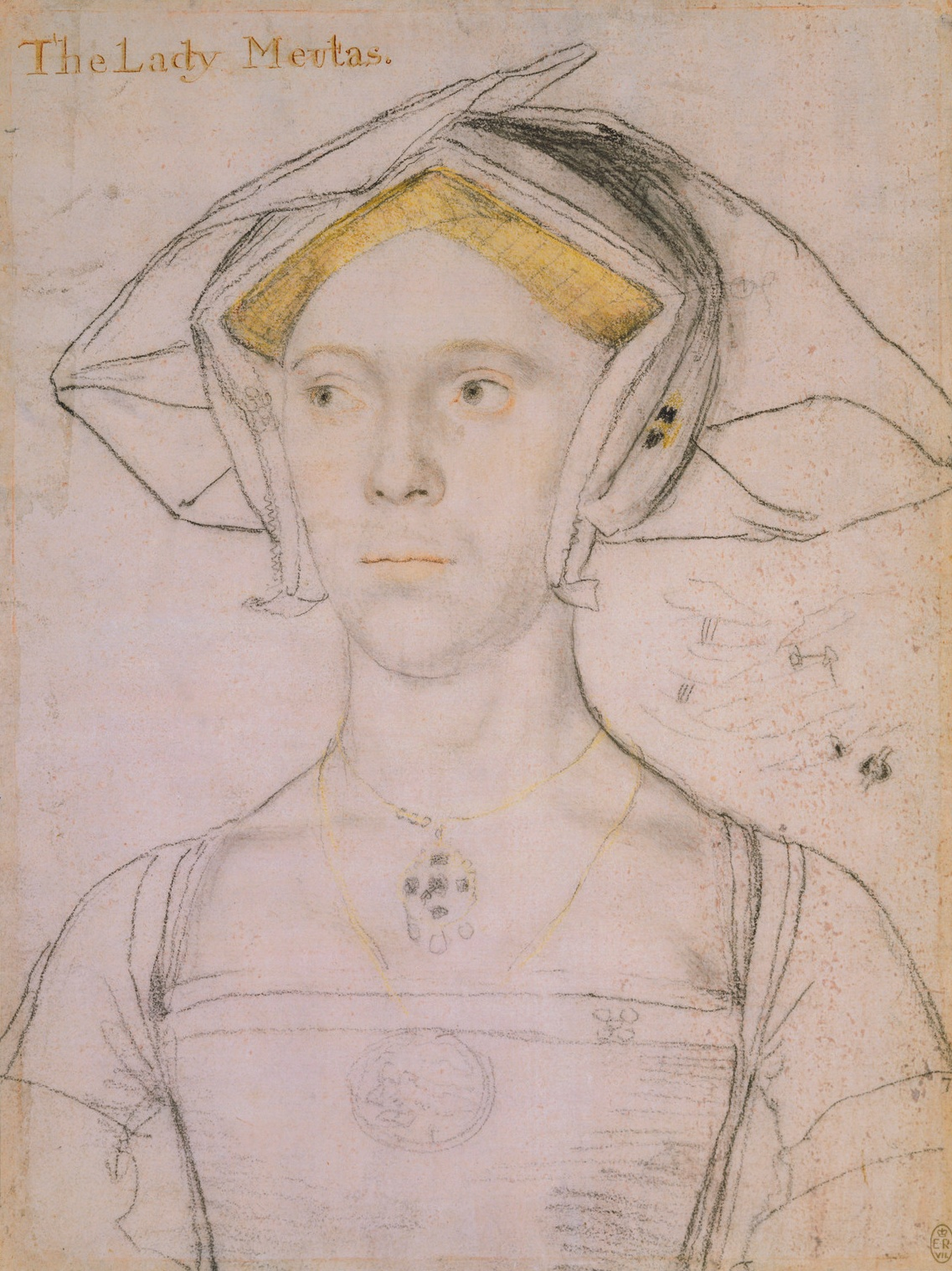 Portrait of Joan, Lady Meutas. Black and coloured chalks with wash on pink-primed paper, 28.3 × 21.2 cm, Royal Collection, Windsor Castle. Joan or Jane Astley (d. 1577) was the sister of London mercer John Astley. She married the courtier Peter Meutas, who, like Holbein, was involved in Henry VIII's embassies to scout for potential brides. On the right of the drawing is a sketch of interlocked hands wearing rings. The design on Lady Meutas's oval medallion is similar to one of Holbein's designs for a Mary Magdalen medallion.